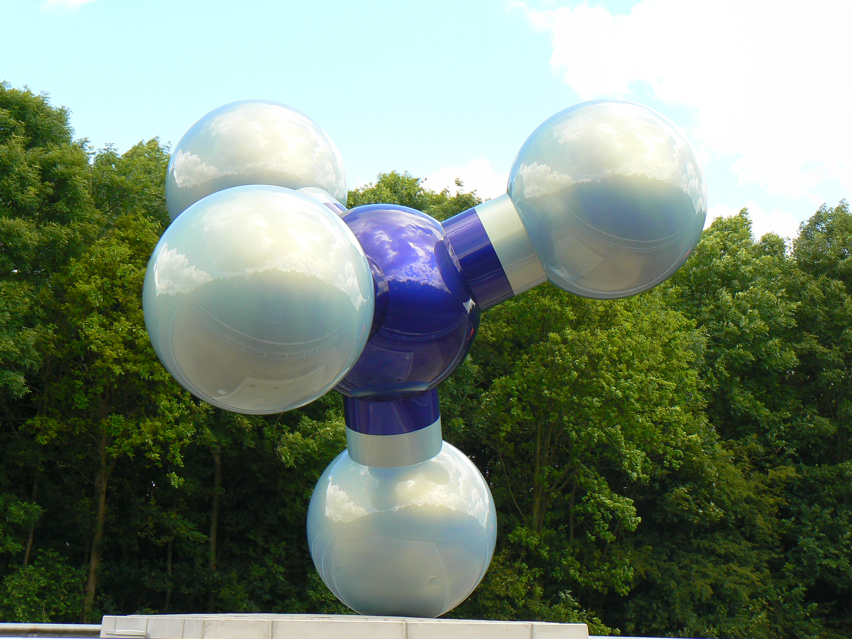 Sculpture Gasmolecule (2009) by Marc Ruygrok on the A7 in Kolham (gemeente Slochteren) / The Netherlands